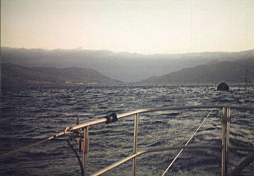 Leaving Catalina towing tank and keel.